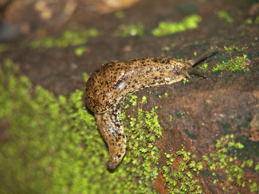 Unidentified gastropod from Budongo Forest, Uganda.